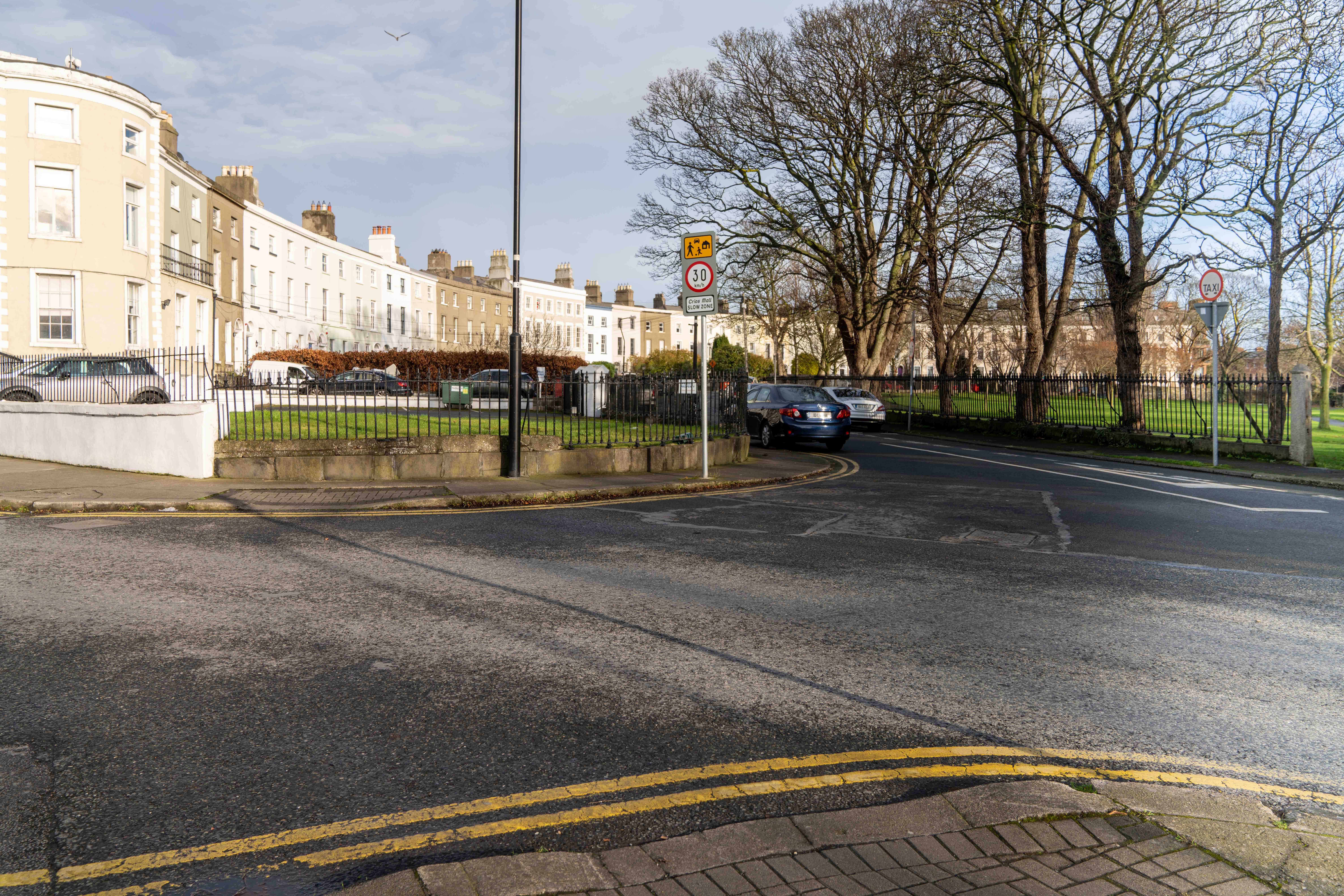 A view East along Marino Crescent towards Clontarf in January 2020